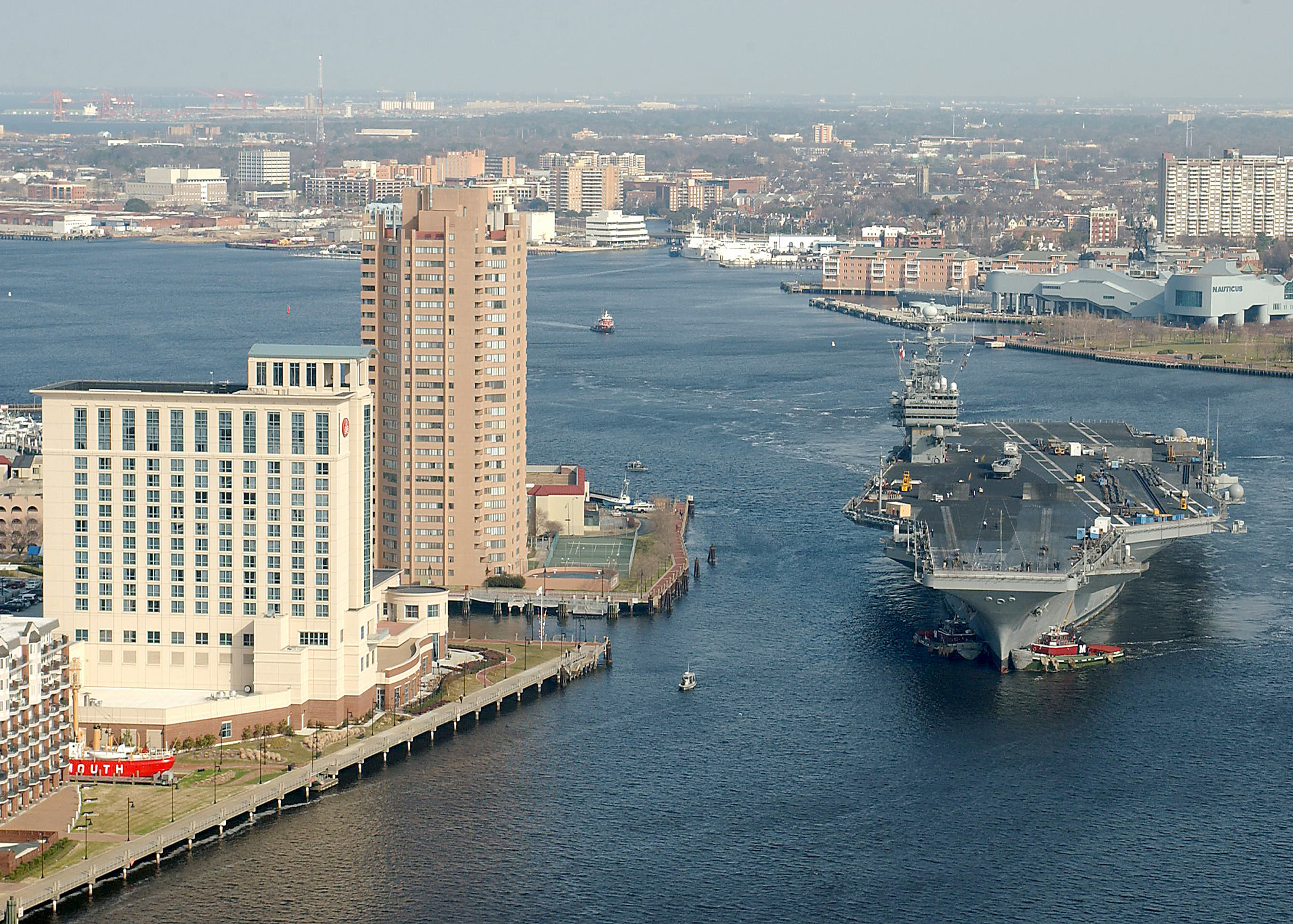 Norfolk, Va. (Feb. 25, 2003) – The nuclear powered aircraft carrier USS George Washington (CVN 73) passes downtown Norfolk, Va. during her transit down the Elizabeth River from Norfolk Naval Station to Norfolk Naval Shipyard in Portsmouth, Va. U.S. Navy photo by Photographer's Mate 3rd Class Summer M. Anderson. (RELEASED)